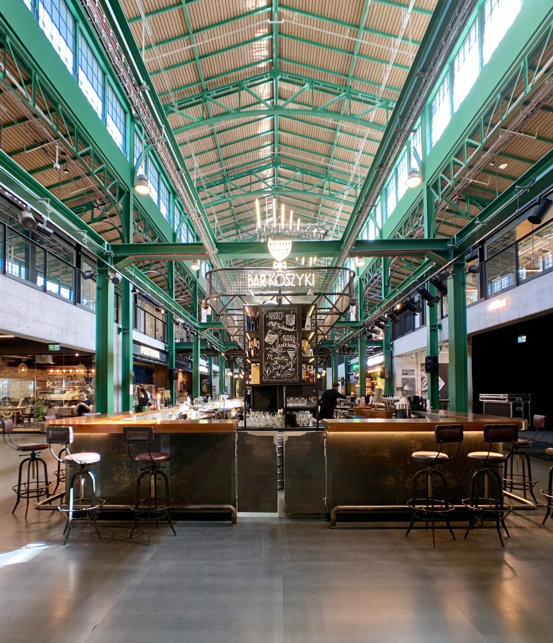 Bar Koszyki, Hala Koszyki, Warsaw, Poland, 2019